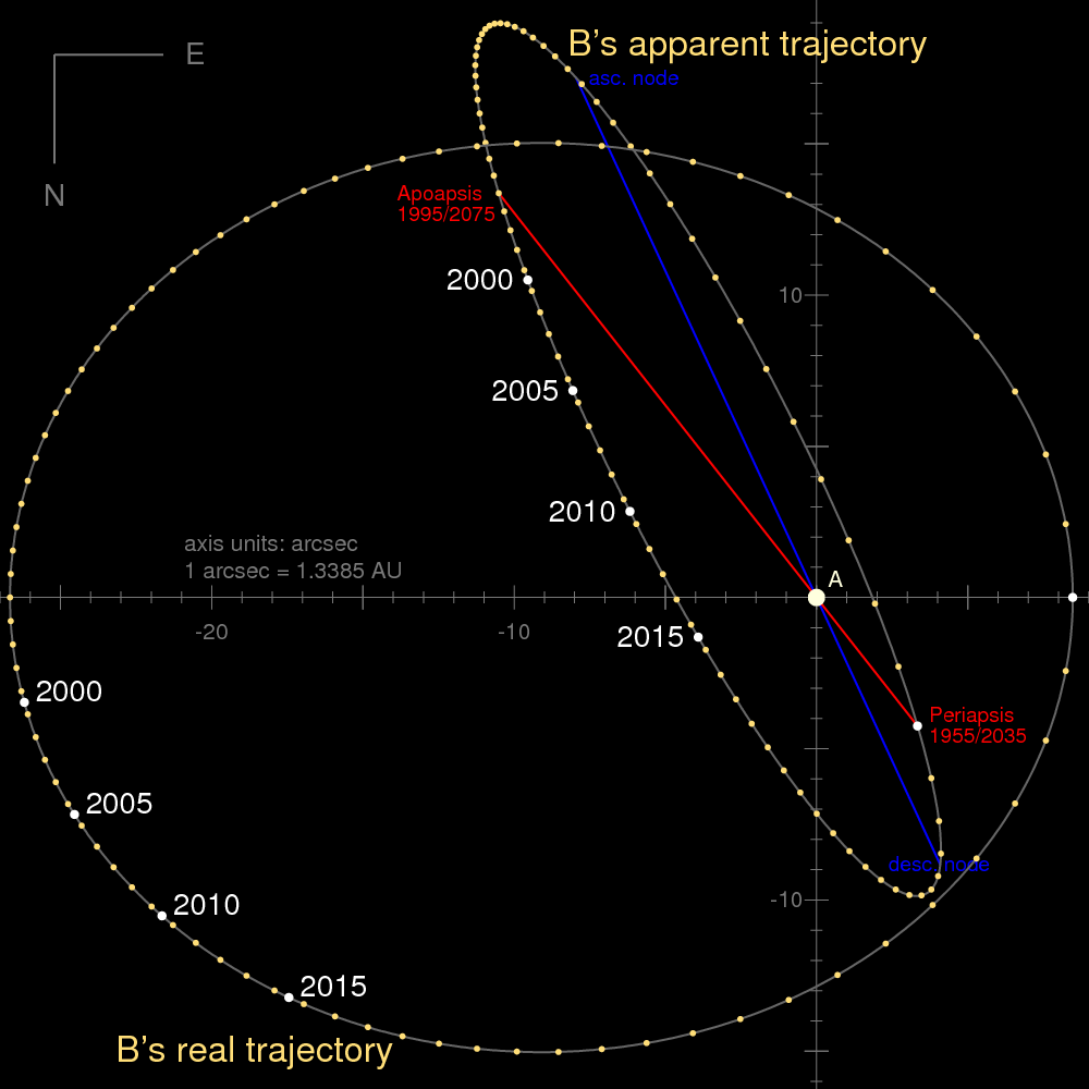 Trajectory of Alpha Centauri B relative to A (fixed to the coordinate origin) as seen from the Earth (inclined ellipse) and face-on (horizontal ellipse). The orbit parameters are taken from Pourbaix et al. (2002). The graph has been created with gnuplot based on data generated by solving Kepler's equation. Note 1: The time stamps refer to the motion as seen from Earth, i.e. delayed with respect to the true motion by the travel of light by about 4.4 years. North is down, as usual in many astronomical charts. Note 2: For simplicity, the points refer to steps of 1/80 of an orbit rather than to exact 1-year steps (which would be 1/79.91 of an orbit). Note 3: The ascending node is the point where B (with respect to A) penetrates the celestial plane and becomes more distant to Earth than A.